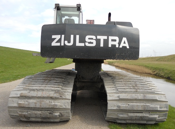 Tracked excavator with broad plastic tracks